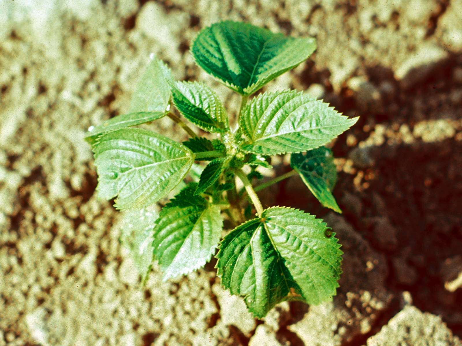 Acalypha virginica L. - Virginia copperleaf, Virginia three-seeded mercury